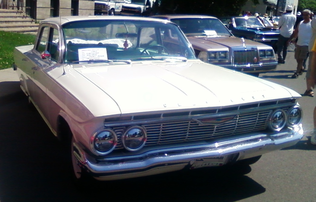 1961 Chevrolet photographed in St. Lambert, Quebec, Canada at Auto classique VAQ St-Lambert 2012.